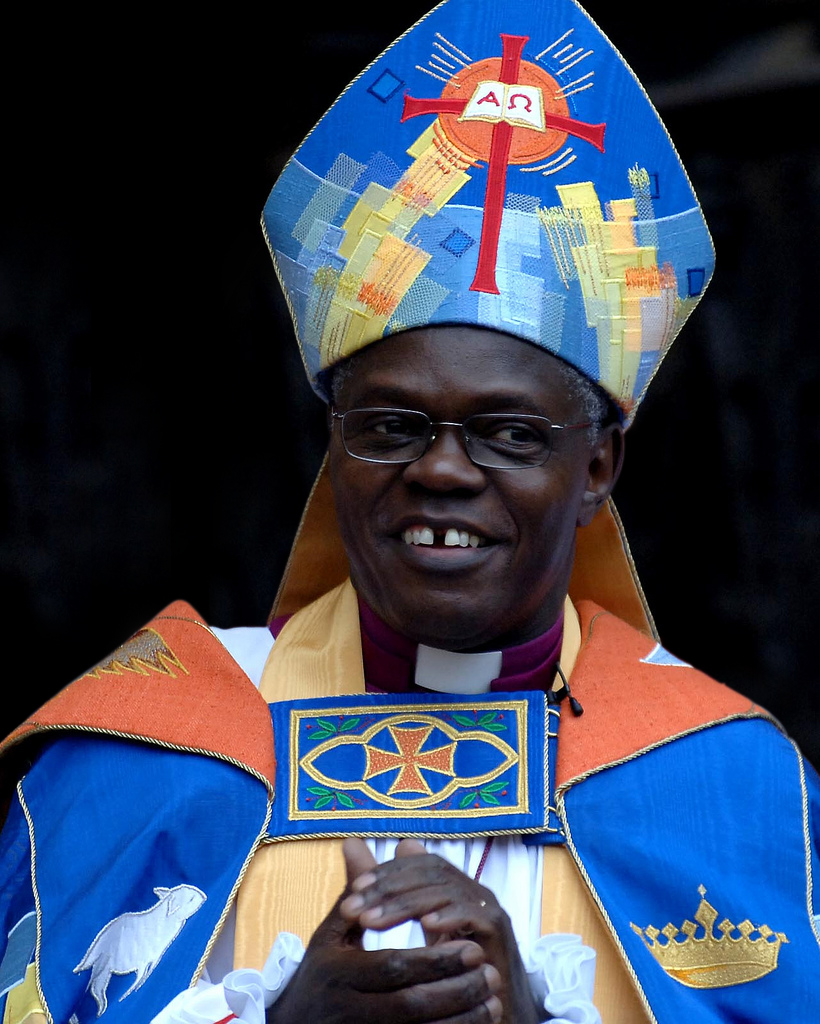 Archbishop John Sentamu leaves York Minster after his Enthronement Service today